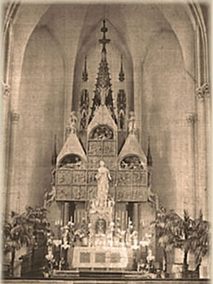 Church of the Immaculate Conception of the Holy Virgin Mary, original altar, permanently lost in 1938.